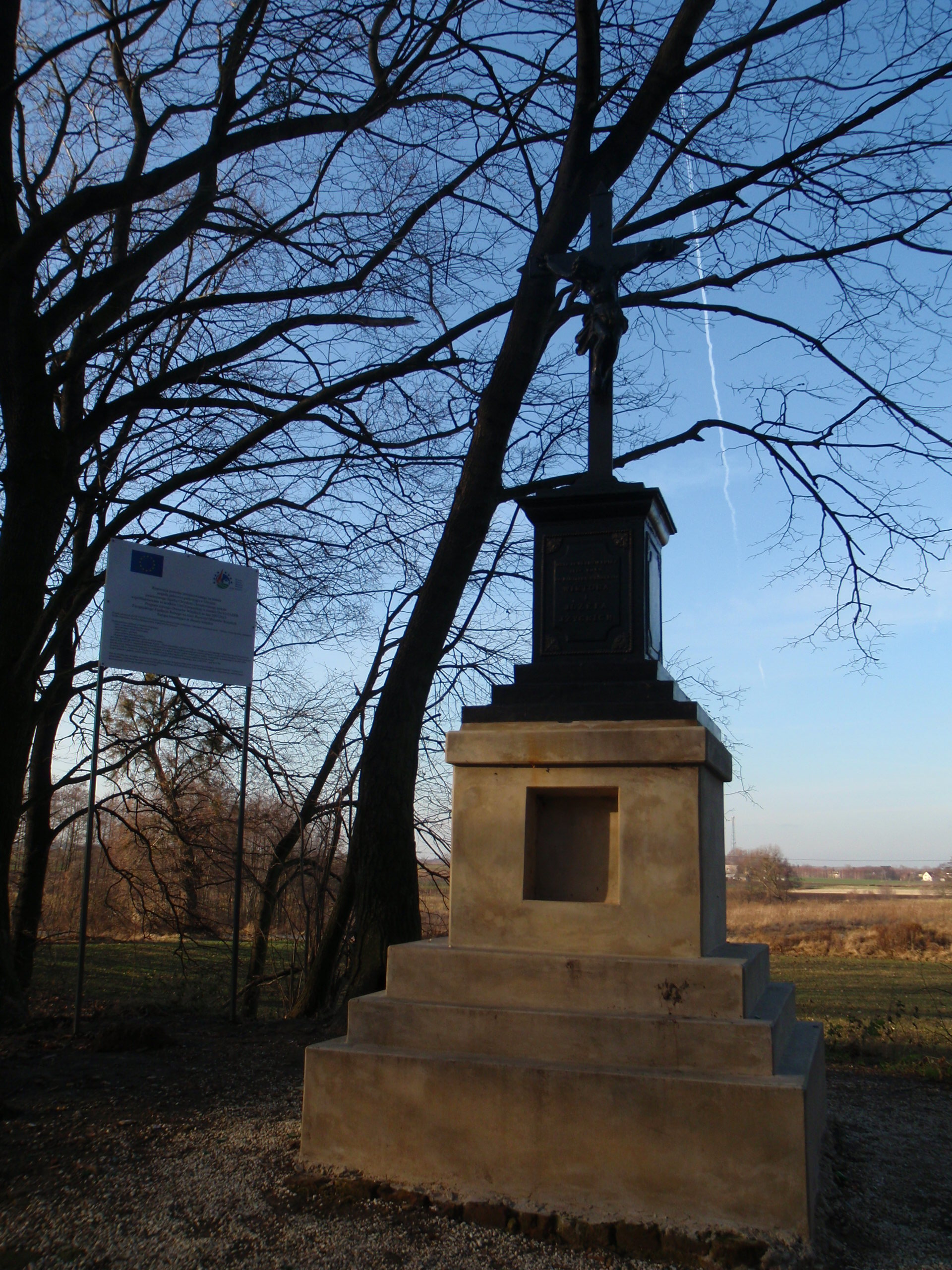 Cross commemorating birth of Wiktor and Józef Iżyccy; Olesin